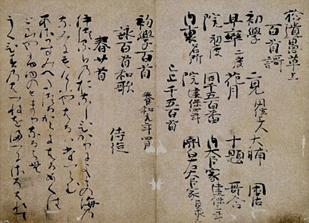 Foolish Verses of the Court Chamberlain (拾遺愚草, Shūigusō, lit.: Gleanings of Stupid Grass)